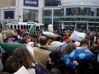 Flash mob/Pillow fights in Toronto, Dundas square, Eaton Center, Toronto, Canada